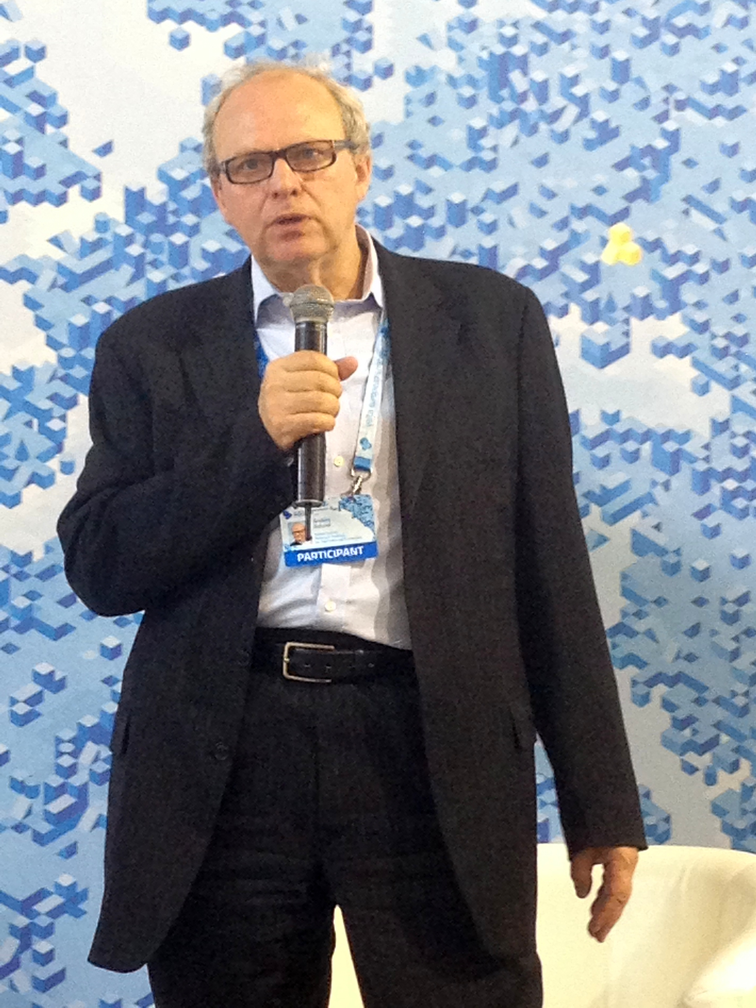 Anders Åslund at Yalta European Strategy